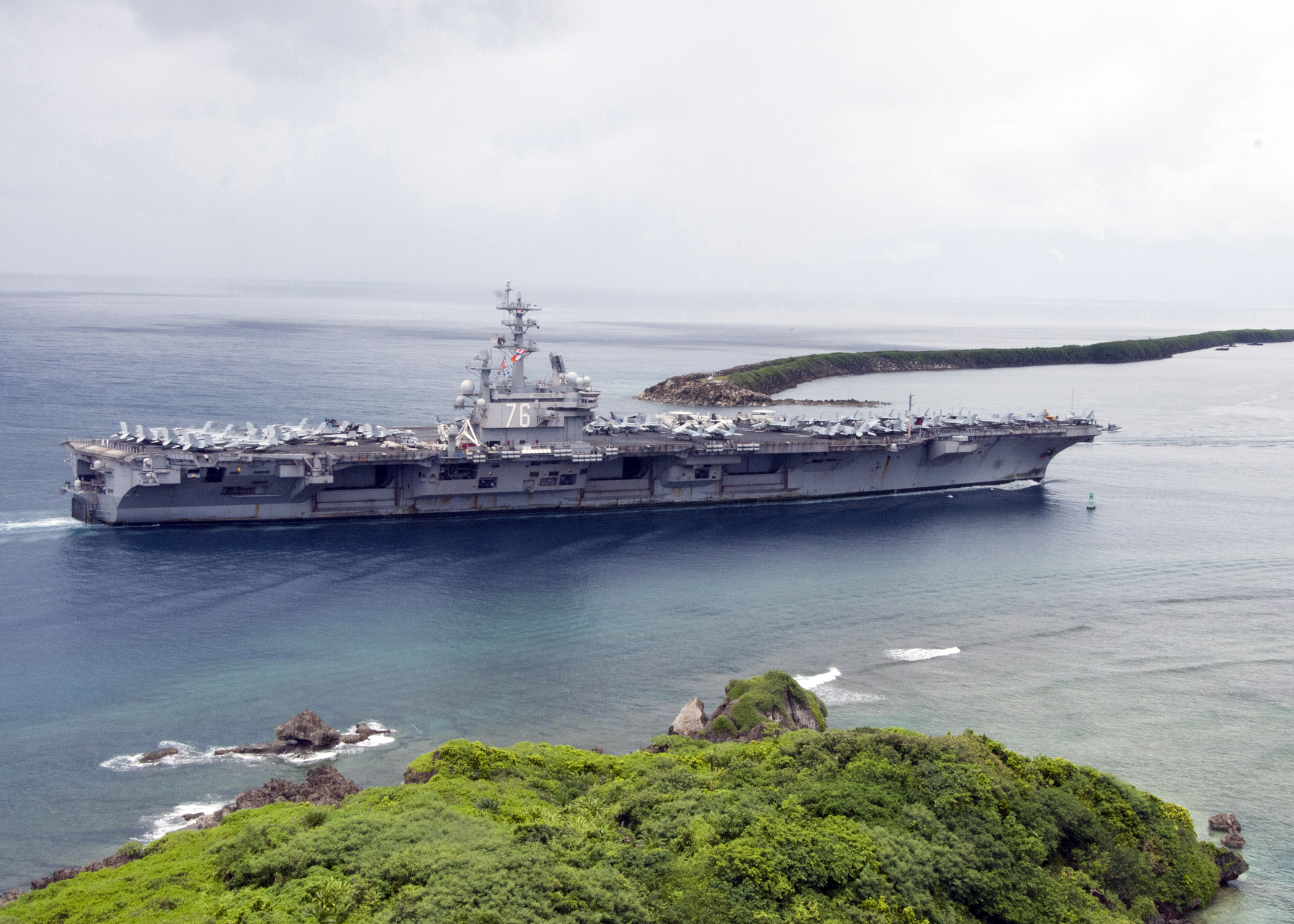 APRA HARBOR, Guam (Aug. 21, 2011) The aircraft carrier USS Ronald Reagan (CVN 76) enters Apra Harbor for a scheduled port visit. (U.S. Navy photo by Mass Communication Specialist 1st Class Peter Lewis/Released)